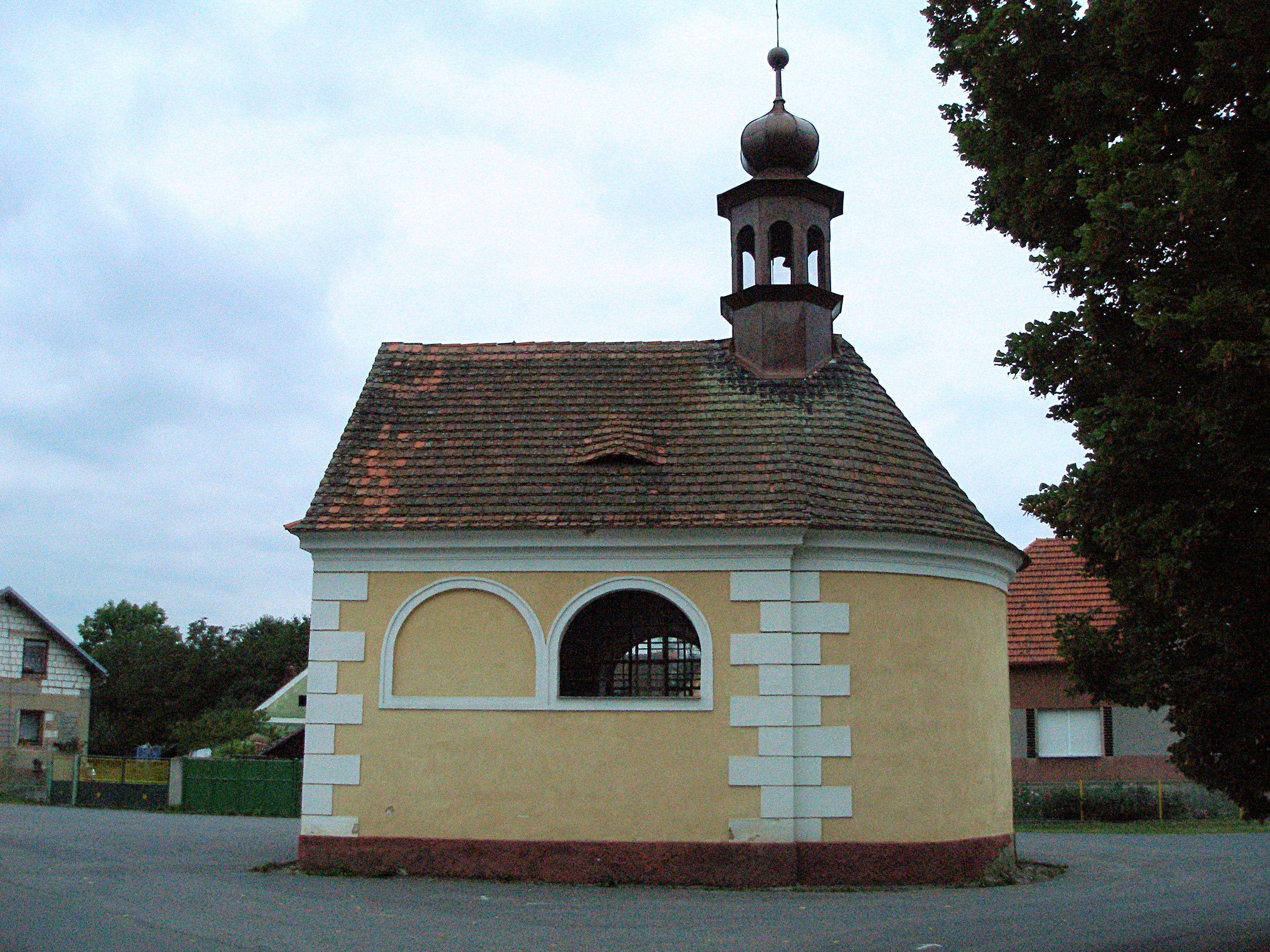 The chapel in Ježovy